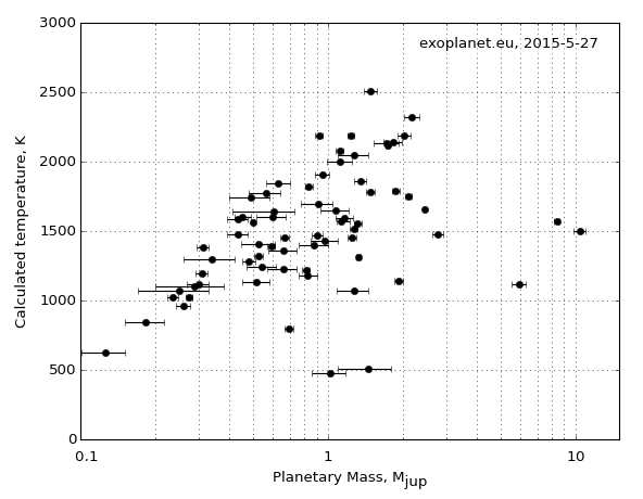 Plot of the calculated temperature against the mass for exoplanets with masses from 0.1 to 10 Jupiter masses, for which such data are entered into the exoplanet.eu database as of 2015 May 27